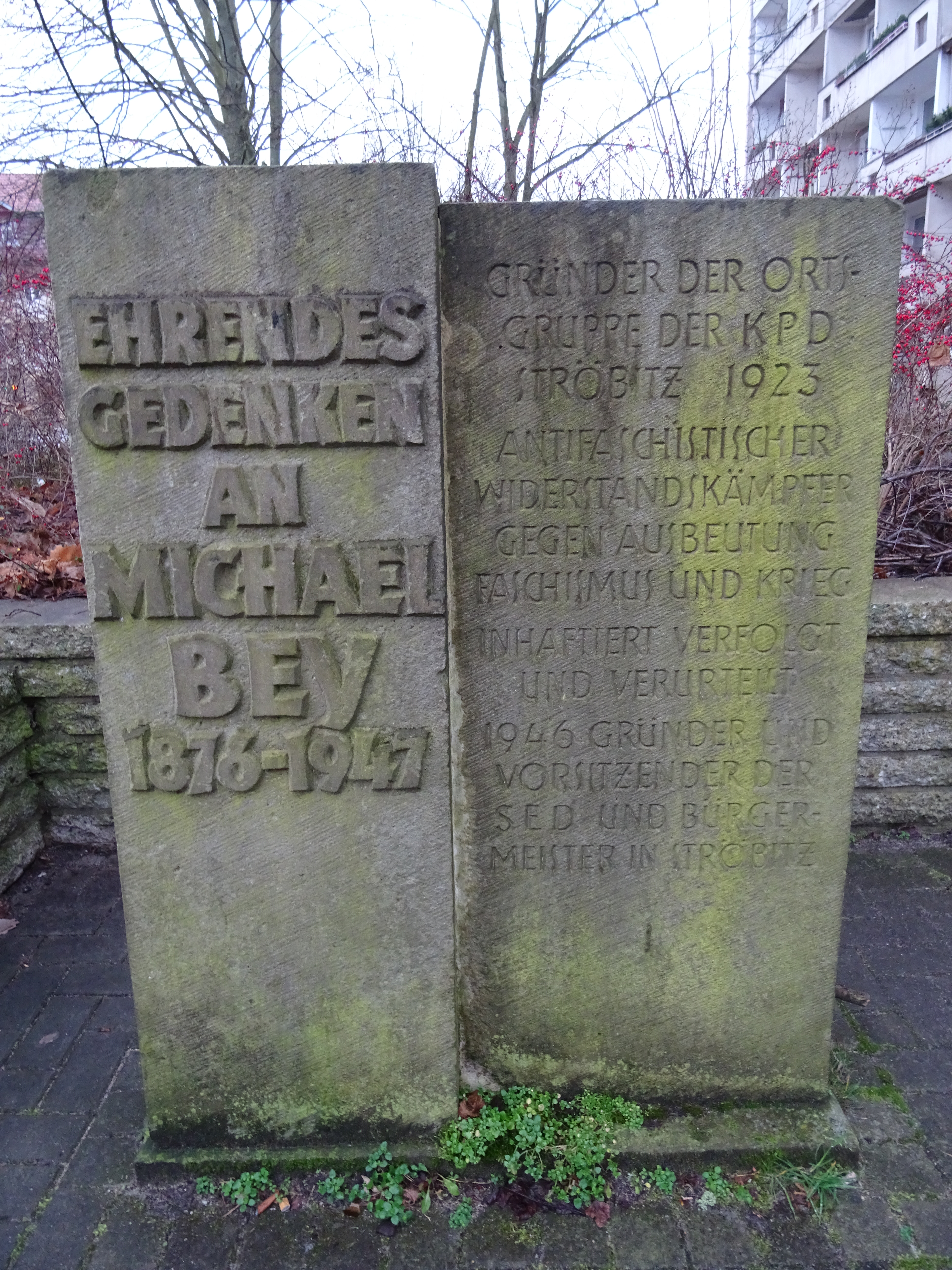 Memorial for Michael Bey in Cottbus, Ewald-Müller-Straße. Translation of the inscription: In honorary memory for Michael Bey 1876–1947 Founder of the local group of the KPD Ströbitz 1923 Anti-fascist resistance fighter against exploitation fascism and war Imprisoned persecuted and convicted 1946 founder and chairman of the SED and mayor in Ströbitz